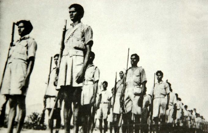 Armed peasants - Telangana armed struggle (1946-1951)